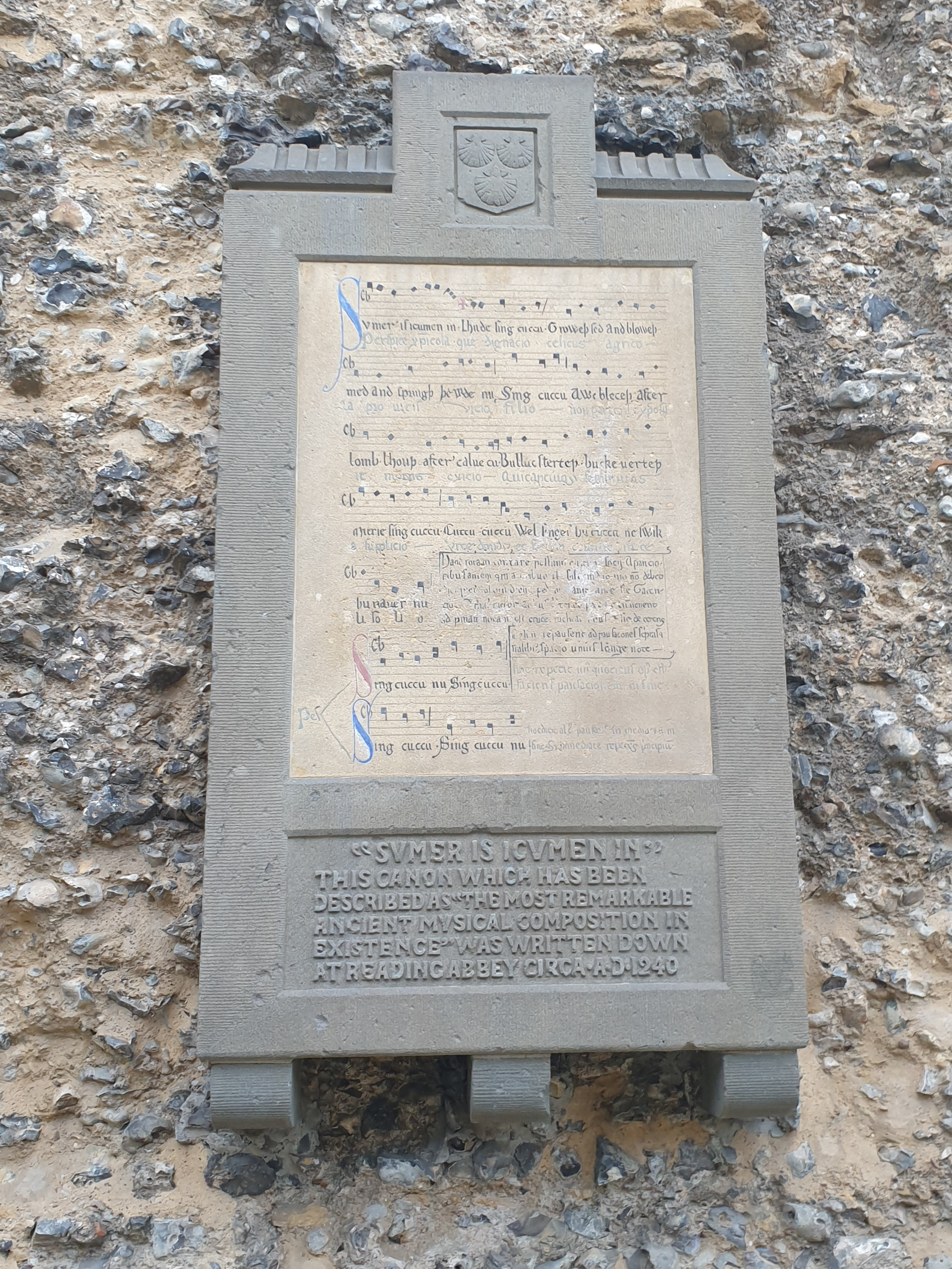 Plaque commemorating old English song Sumer Is Icumen In, probably composed at Reading Abbey around the middle of the 13th century.